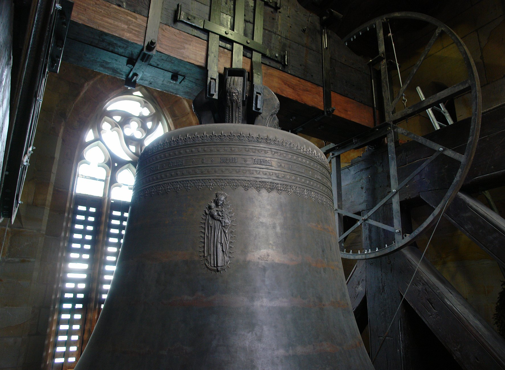 Erfurt, Thuringia, Germany. Erfurt Cathedral: Maria Gloriosa